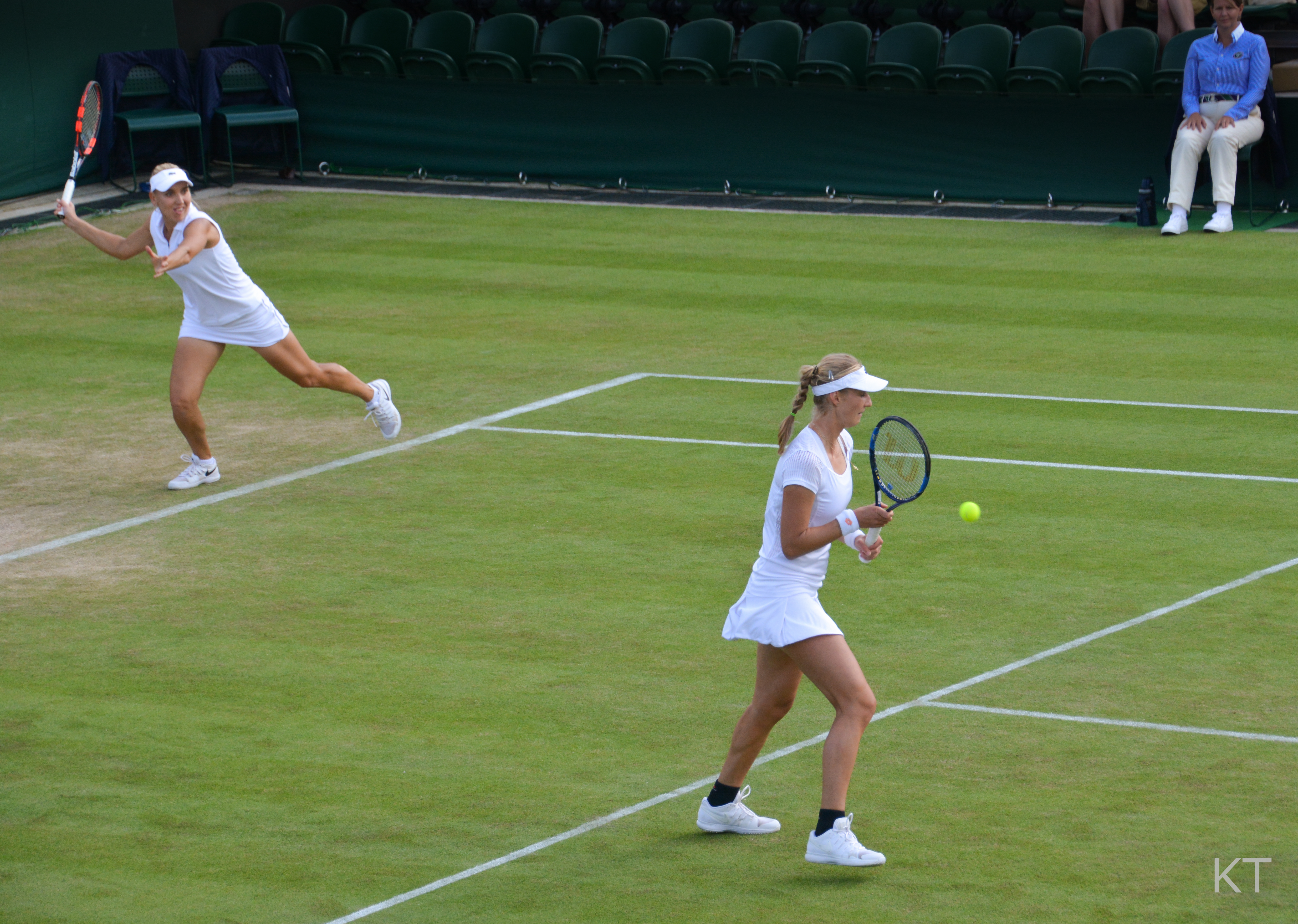 Doubles against Anna Smith & Jocelyn Rae. Middle Sunday of Wimbledon 2016.